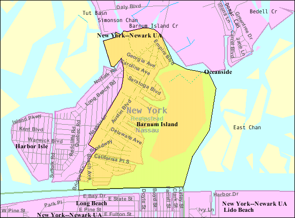 U.S. Census 2000 reference map for Barnum Island, New York